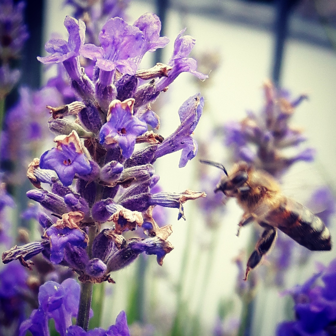 Honeybee flies to blossoms of lavender